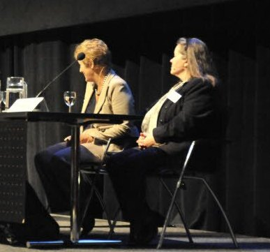 Alessandro Annoni, Denise Lievesley, Pirkko Saarikivi: at the GSDI/INSPIRE Conference 2009